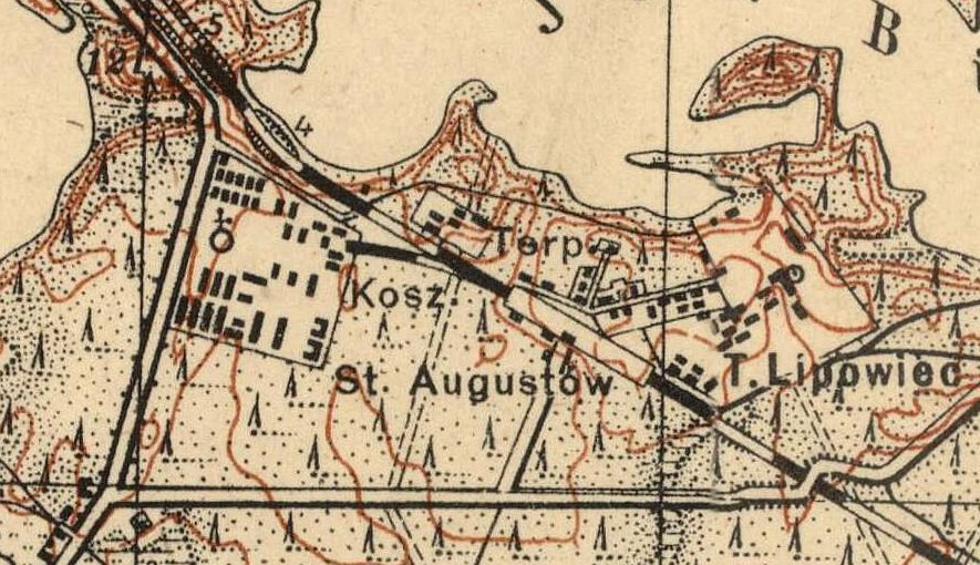 Map of barracks in Augustów (Poland), 1929.